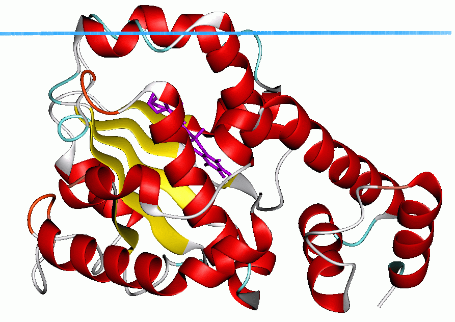 Protein image from OPM database